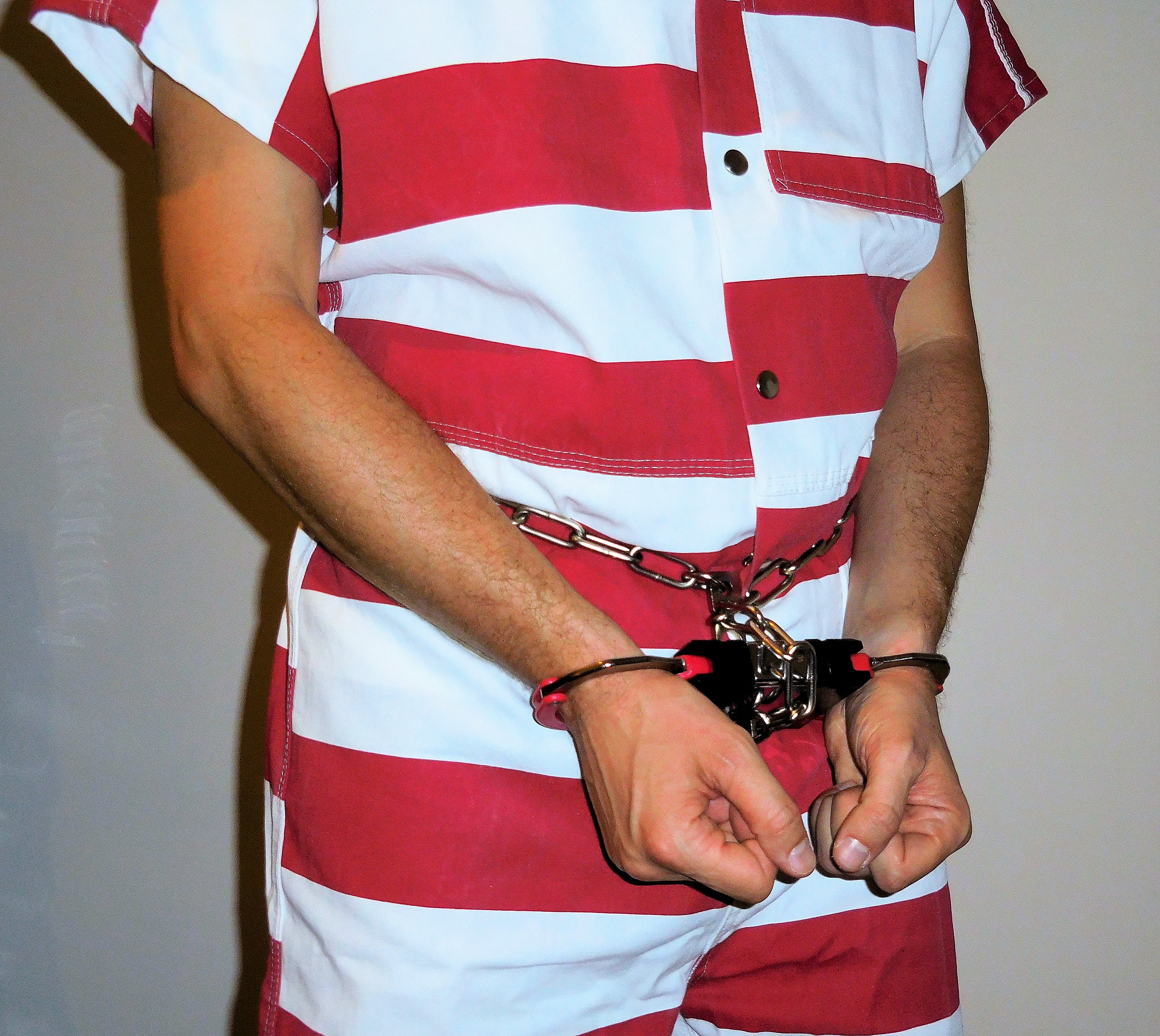 Closeup of an inmate's shackled hands (handcuffs secured with a handcuff cover and a belly chain)